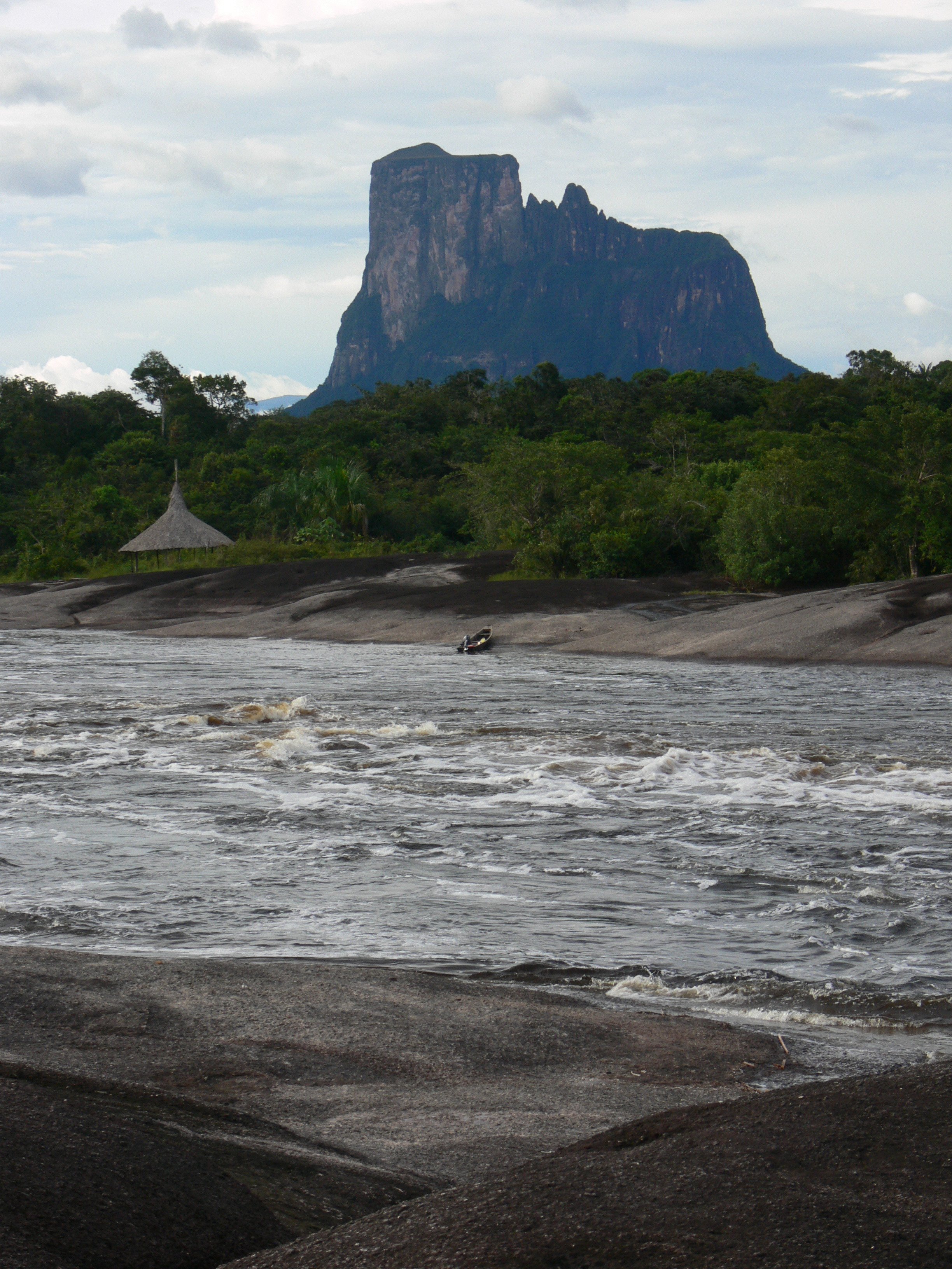 Photo of Cerros Autana by lordhutton